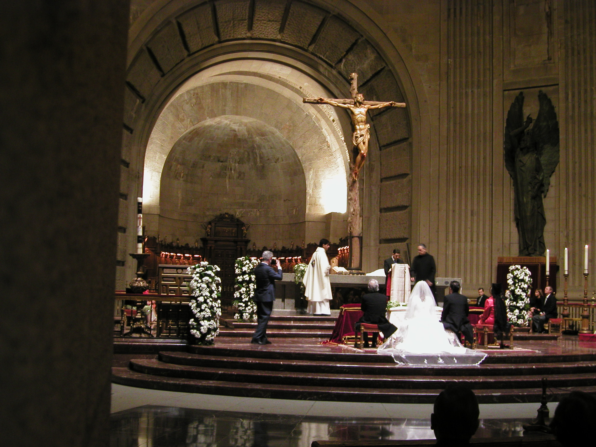 El Valle de Los Caidos, Spain, a wedding over tombstone of Francisco Franco